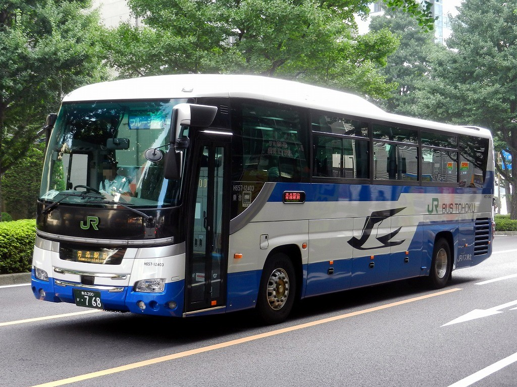 JR bus Tohoku Hino S'elega (QPG-RU1ESBA)for highwaybus "Bluecity"(Sendai-Aomori)